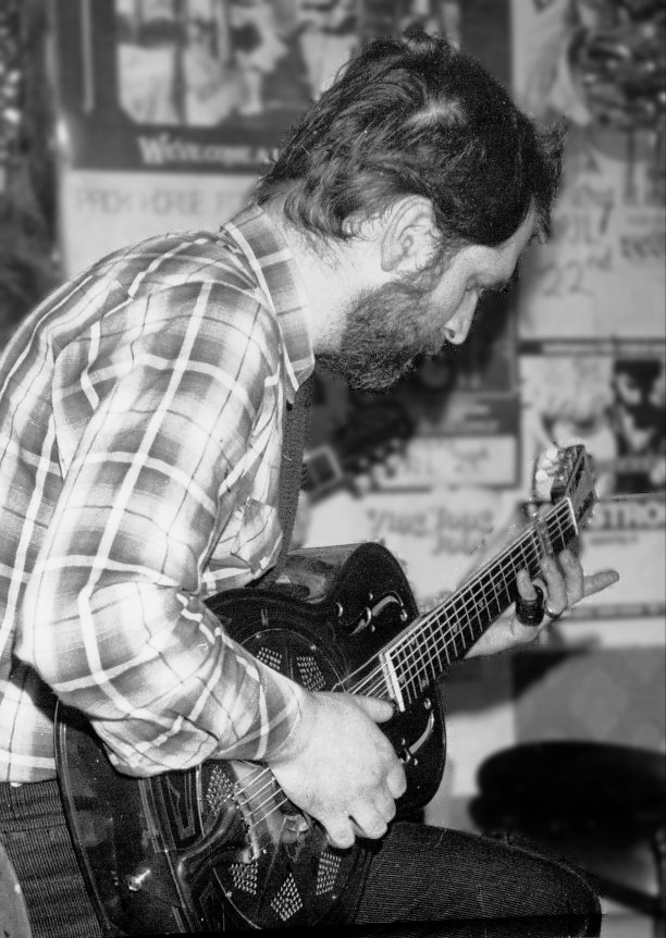 Steve Phillips, musician, onstage in Leeds, U.K., 1978 (photograph by Tony Rees)